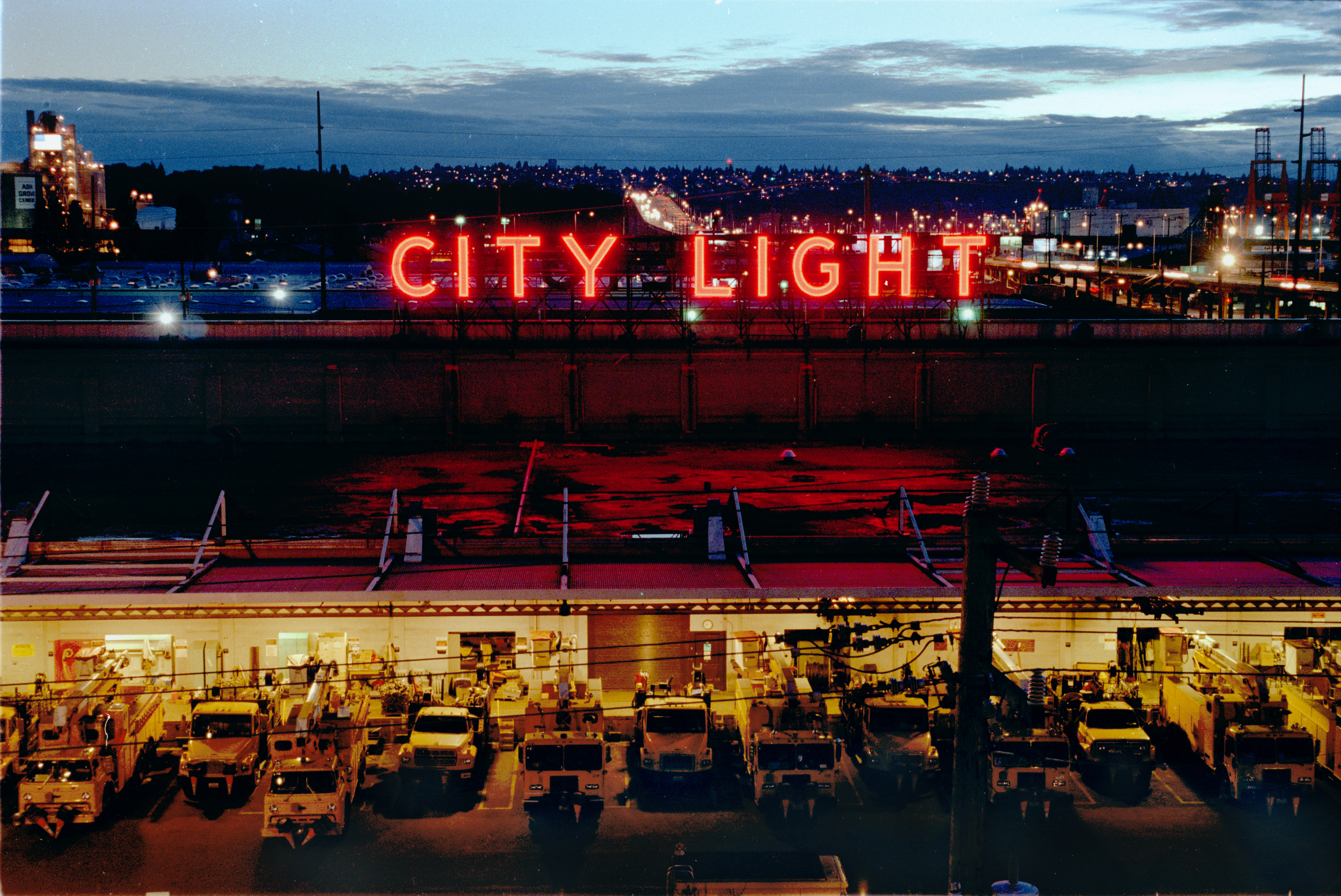 Seattle City Light south service center, 1998. Spokane Street Viaduct at right leads to West Seattle Bridge at upper center. Item 139637, Fleets and Facilities Department Imagebank Collection (Record Series 0207-01), Seattle Municipal Archives.